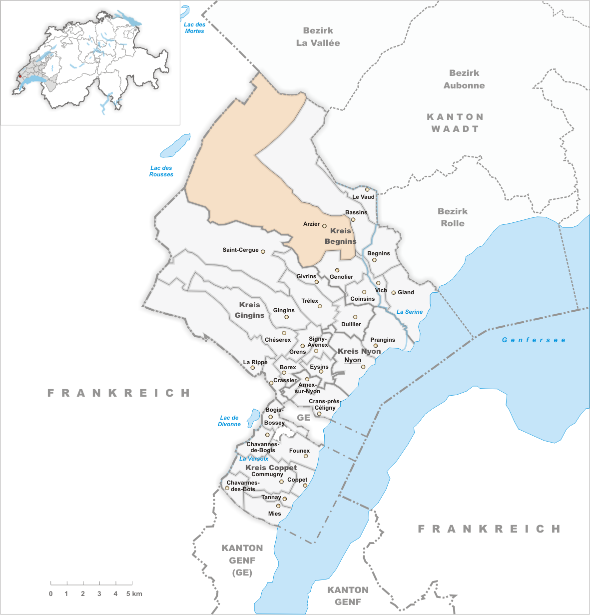 Municipality Arzier